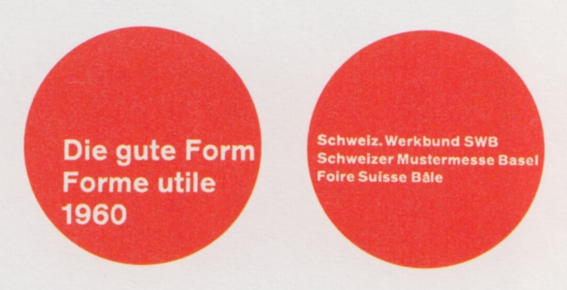 Identification seal for the Swiss design exhibition "Die Gute Form". Designed in 1956 by Emil Ruder, for the arts and crafts organisation Schweizerischer Werkbund (SWB).